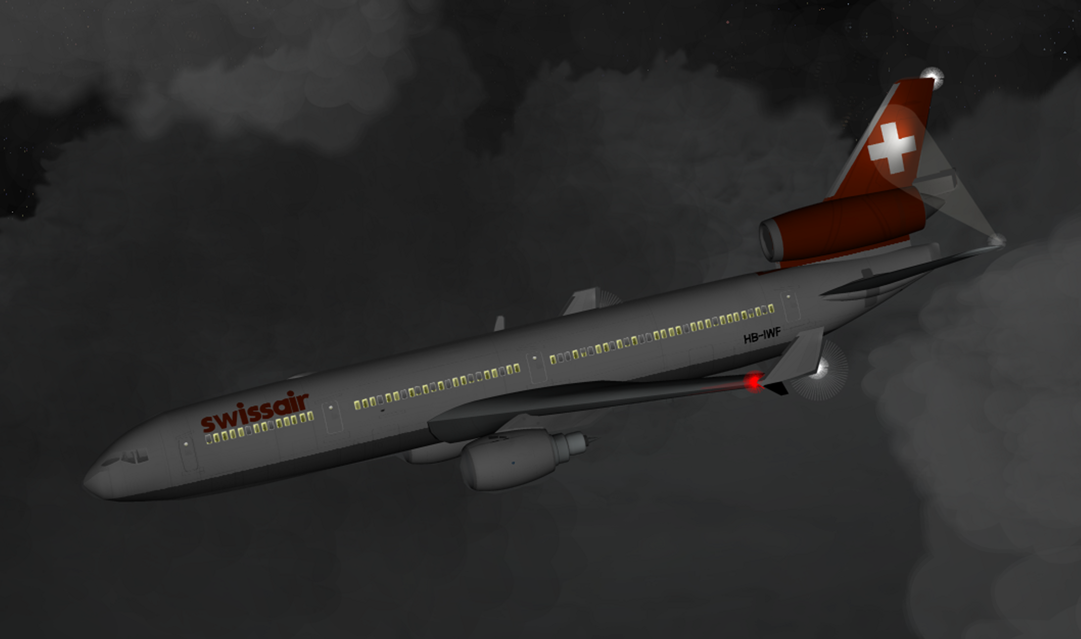 Swissair Flight 111 - On September 2, 1998, the McDonnell Douglas MD-11 aircraft on Flight 111 from New York to Geneva crashed into the waters off Nova Scotia after an in-flight fire, killing all passengers and crew aboard.